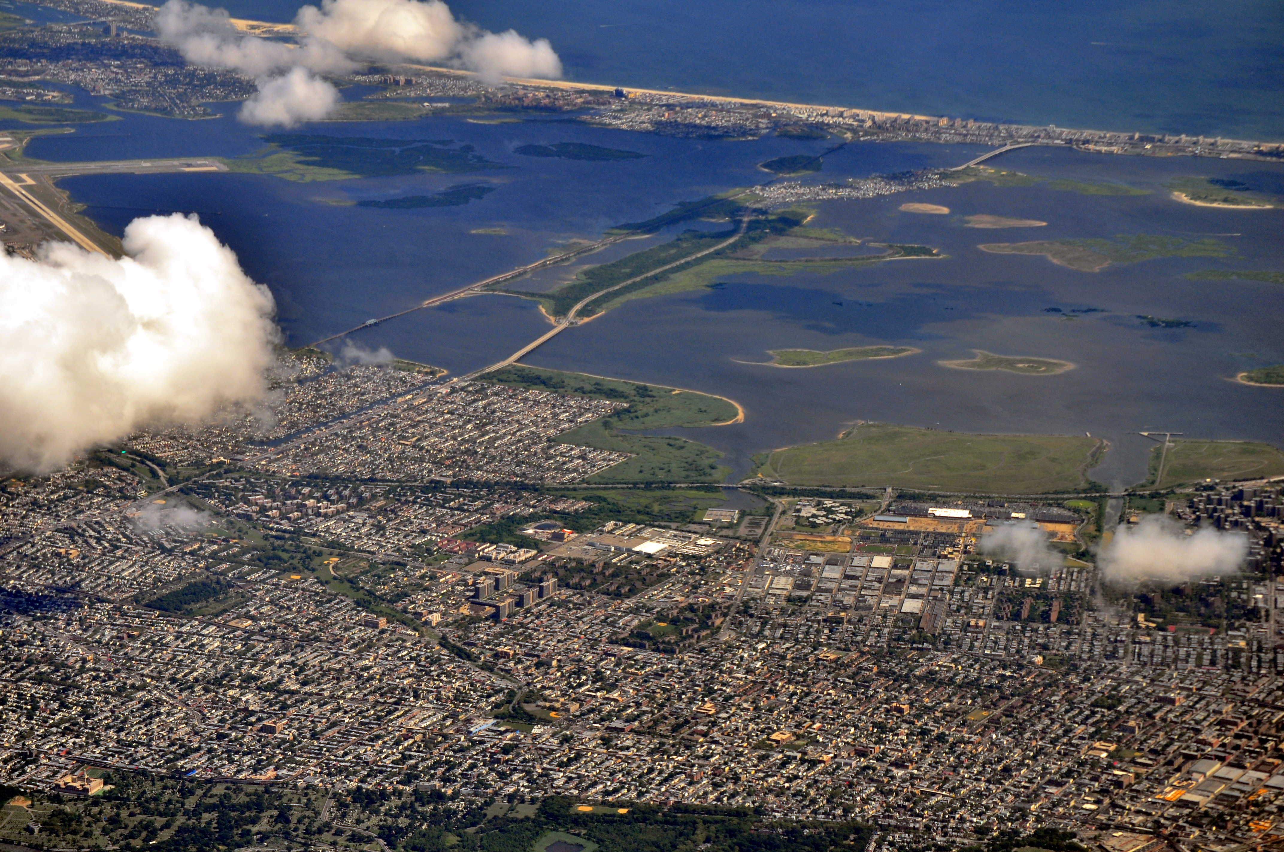 Aerial photo of Jamaica Bay, NY from the northwest.